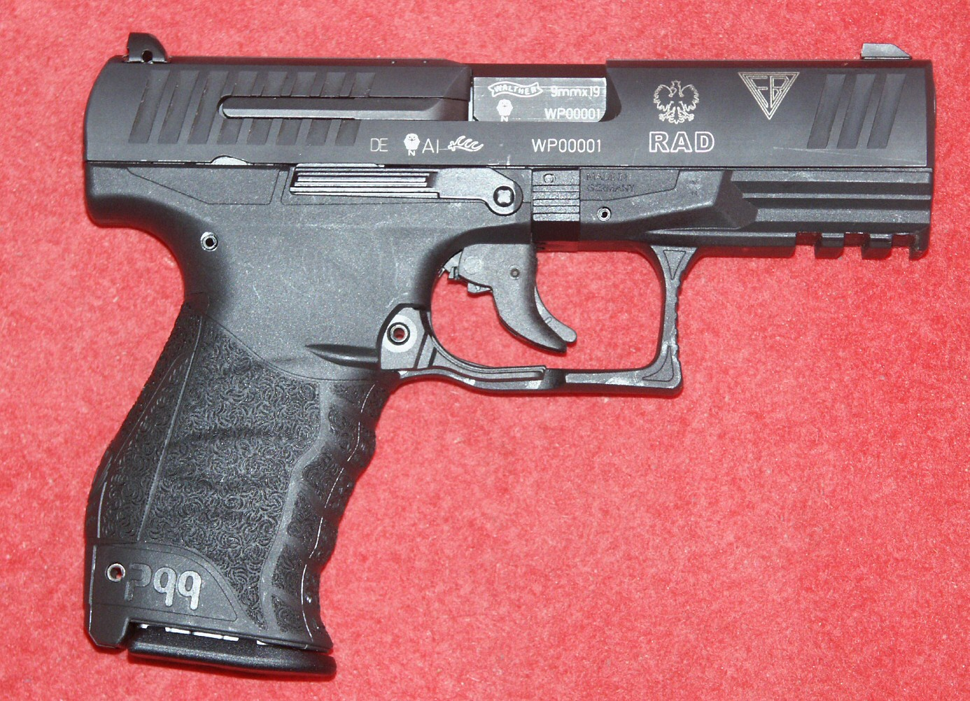 Walther P99 RAD pistol (variant developed by Fabryka Broni Łucznik - Radom, Poland)